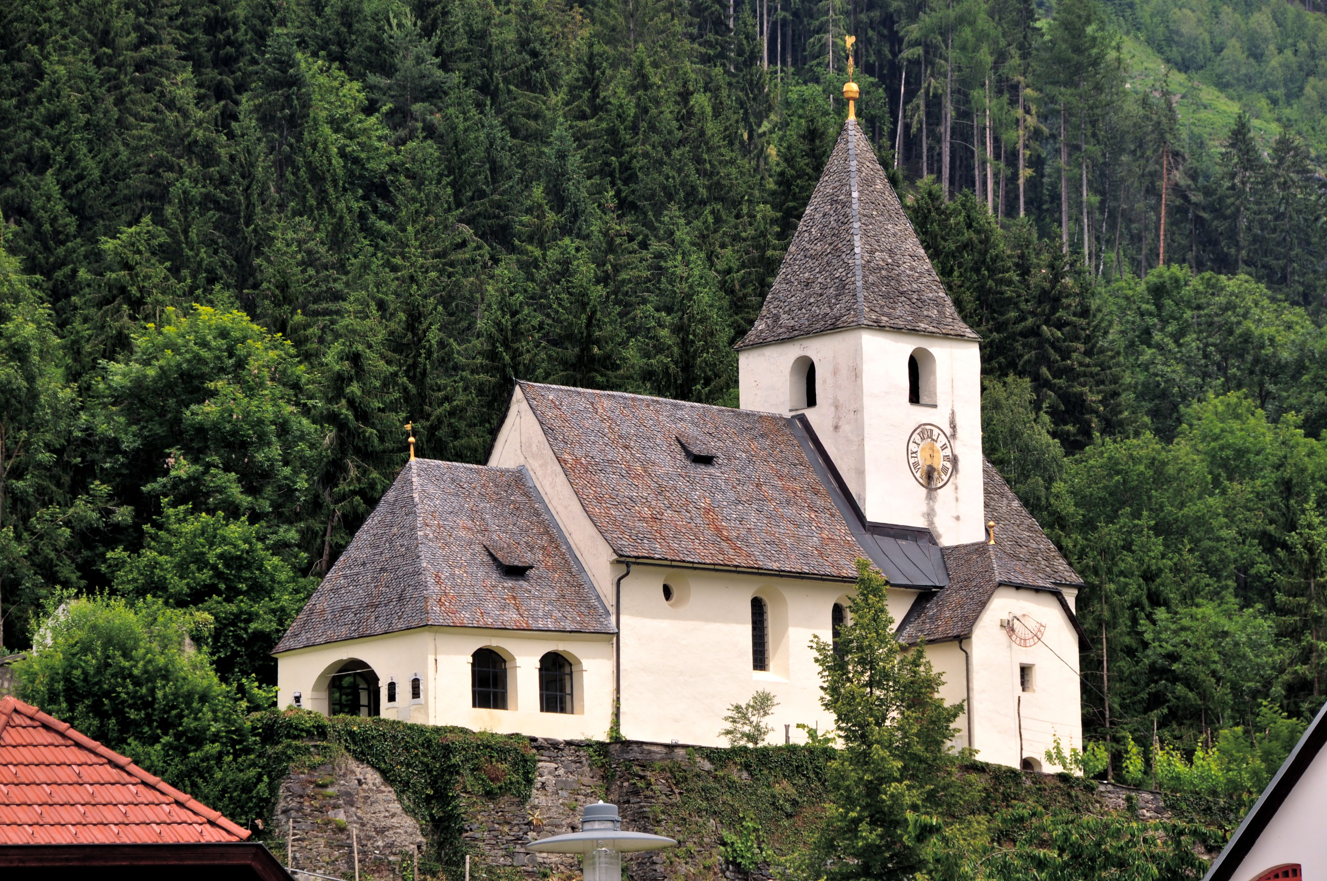 Southwestern view at the parish church Saint Ulrich in Sankt Ulrich, municipality Feldkirchen, district Feldkirchen, Carinthia, Austria, EU